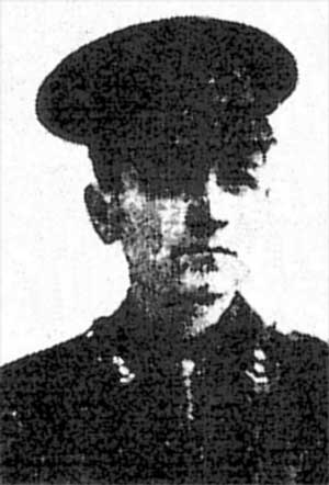 Capt. Ronald Lindsay Johnson military photograph as published by the Altrincham Guardian when reporting his death in action during WWI. Ronald Johnson died on 29 May 1917.